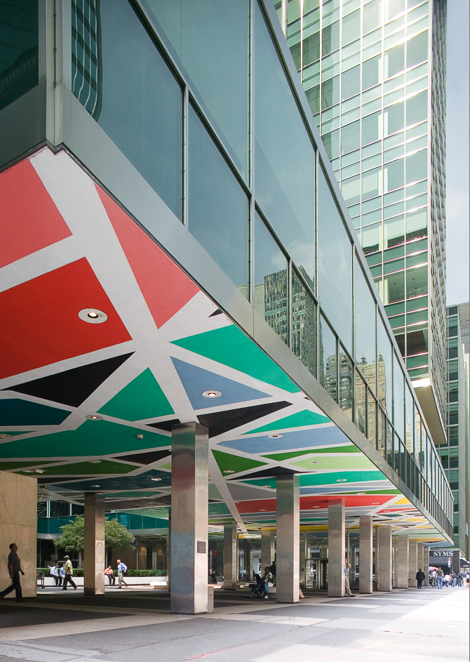 Robert Towne Installation Shot, 2006. Lever House, Manhattan